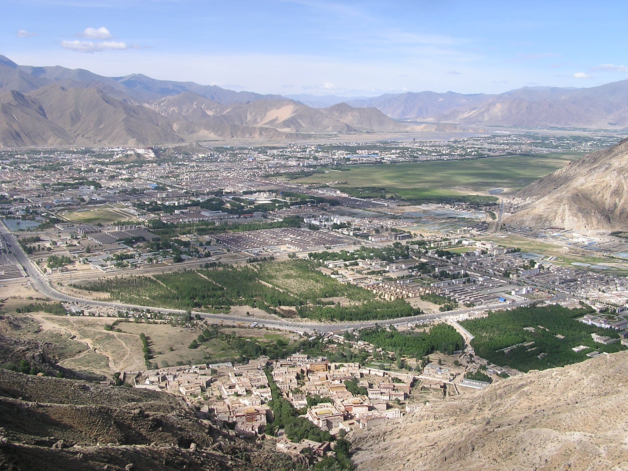 View to Lhasa from Retreat house near Sera. Point 3.